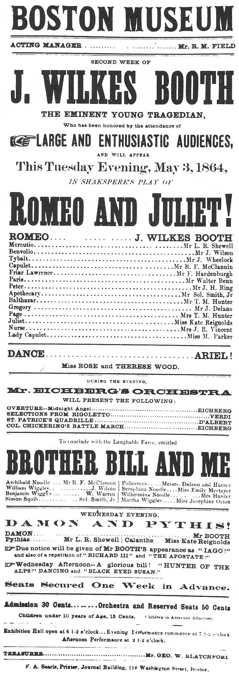 Playbill advertising John Wilkes Booth, starring as Romeo in Romeo and Juliet at the Boston Museum in Boston, on May 3, 1864.